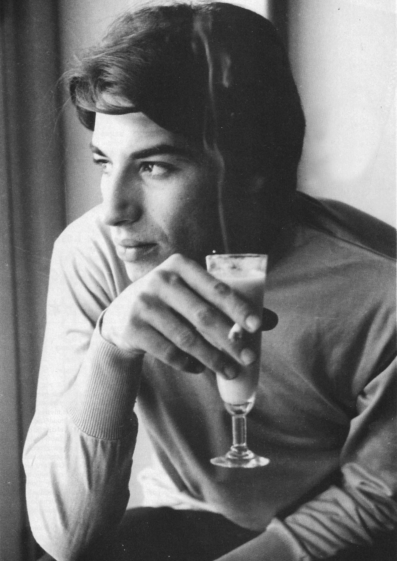 Argentine singer Roberto Sánchez, "Sandro, at the beginning of his musical career.